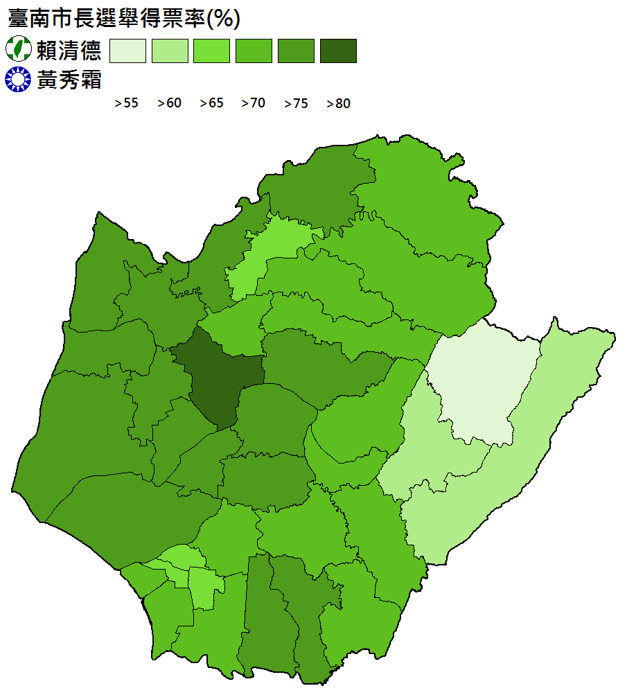 Tainan 2014